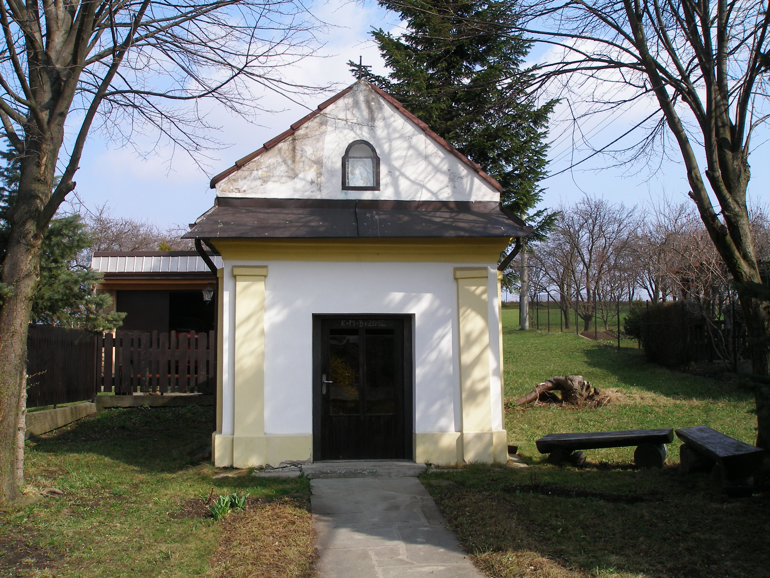 Chapel in Mořkov (in street U Kaple).